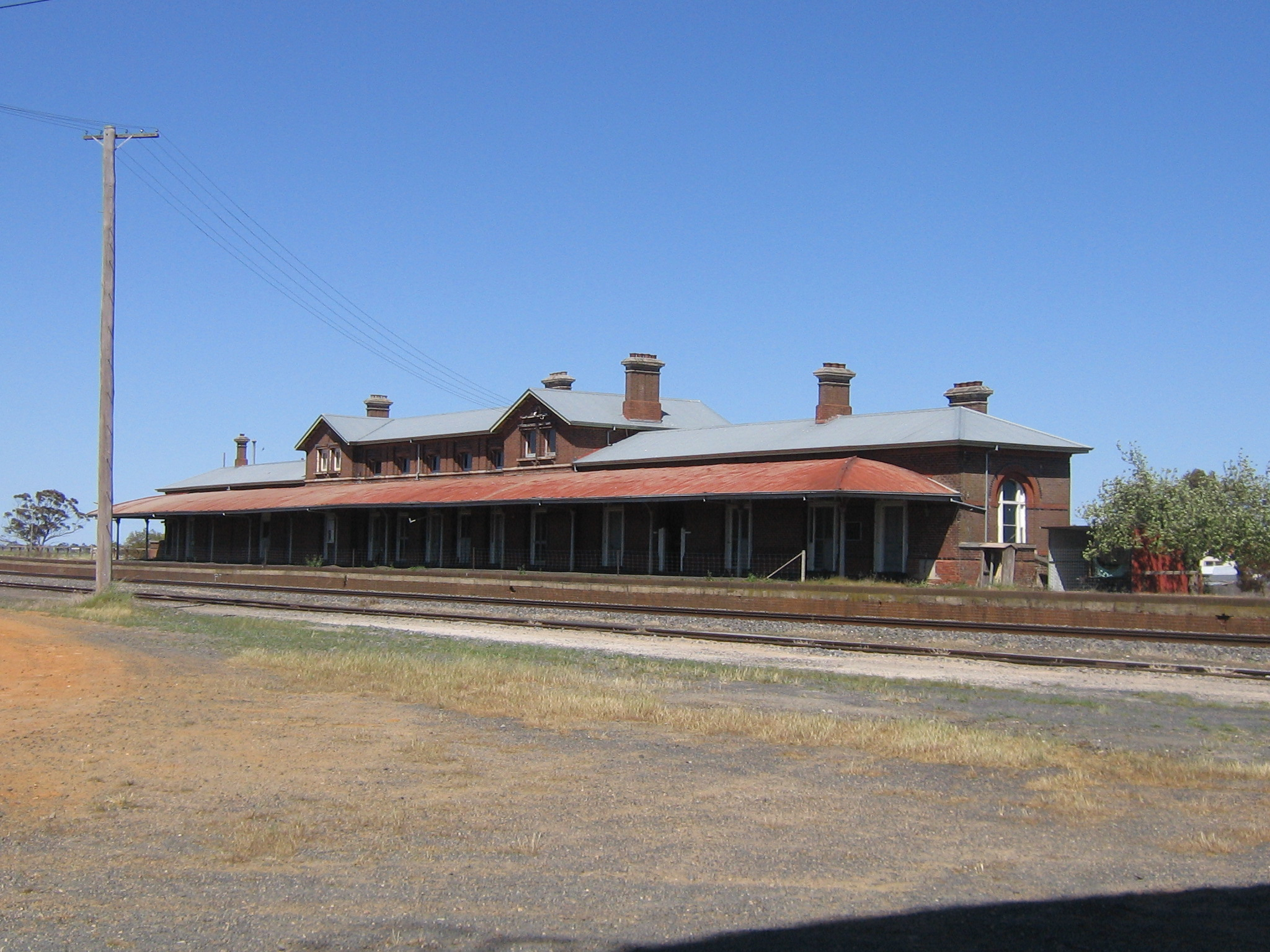 platform side of the historic Serviceton railway station